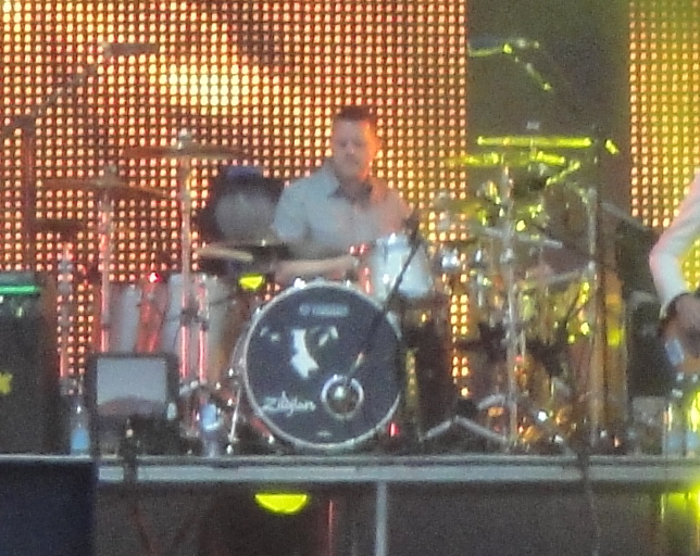 Pulp, performing at the Isle of Wight Festival 2011, held in Seaclose Park, Newport, Isle of Wight.